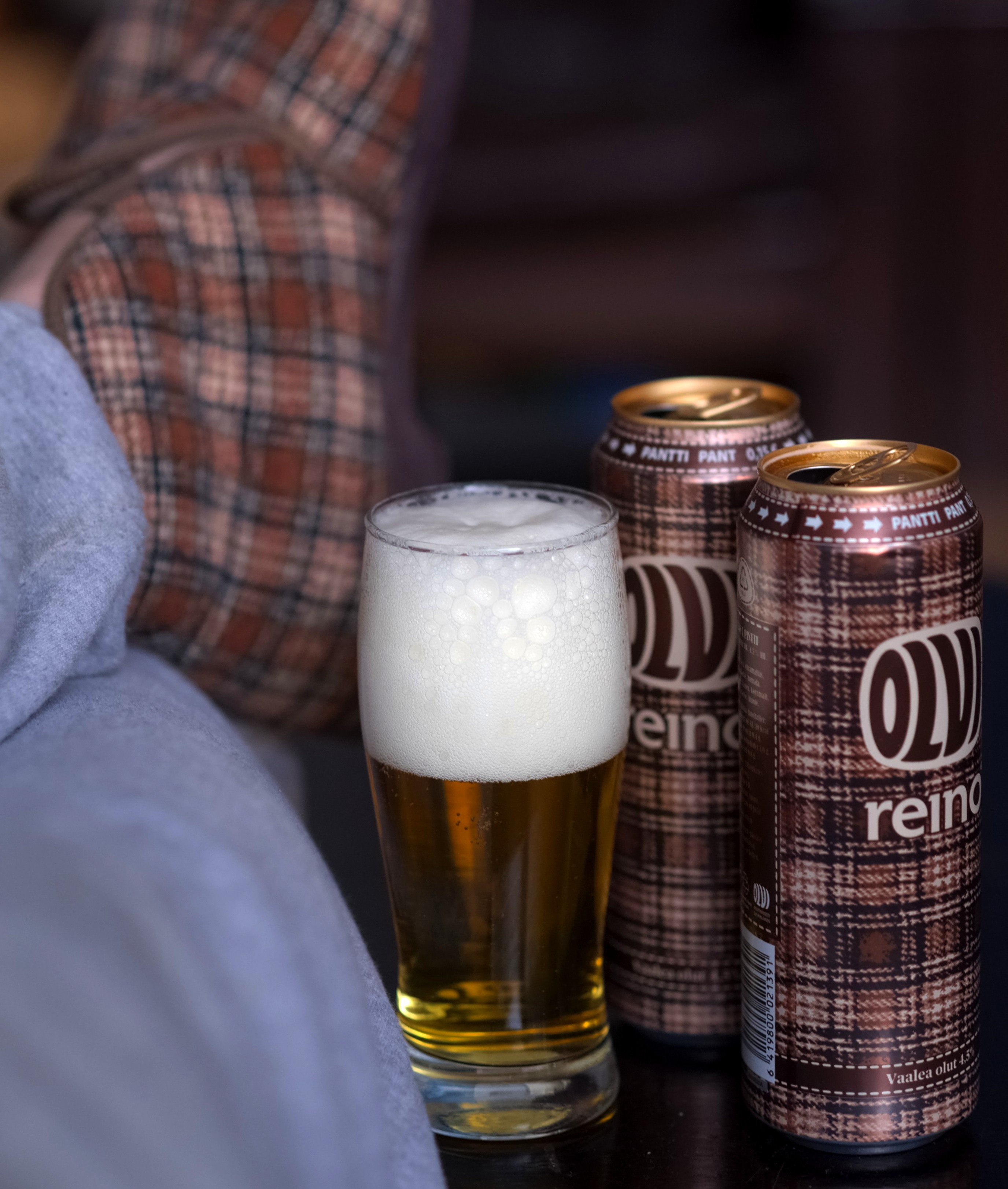 Reino beer and Reino Slipper